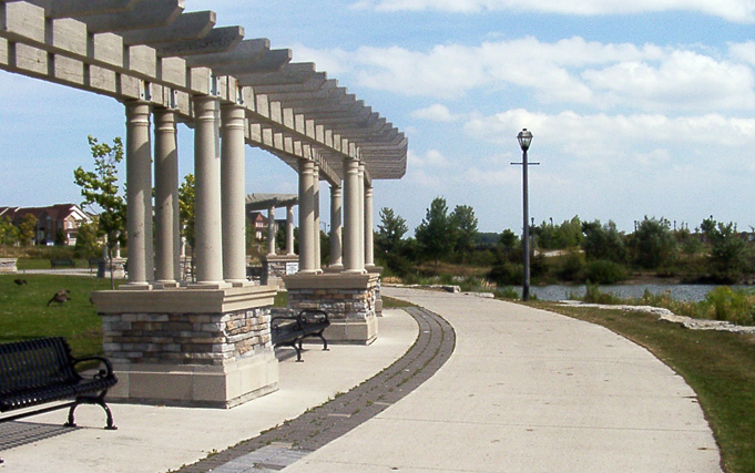 Pathway in Berczy Park in Berczy Village, Markham, Ontario, Canada.